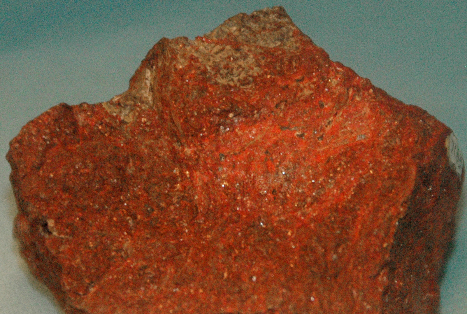 Cinnabar (New Almaden, California, USA)